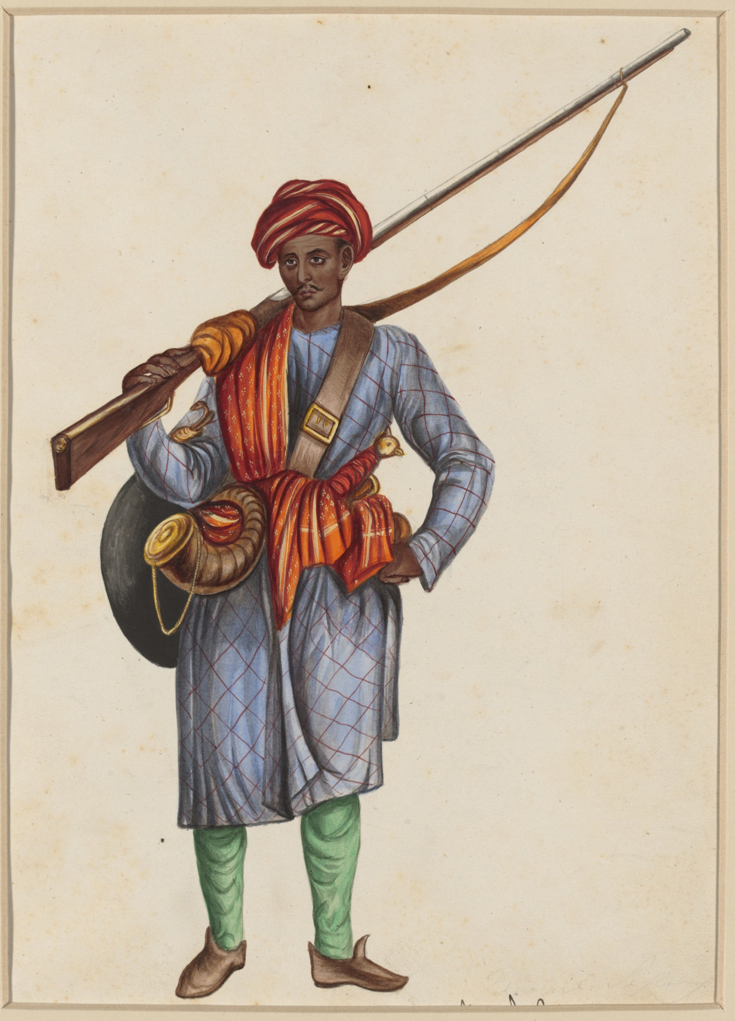 A painting of a Mughal Infantryman; one of seventeen drawings depicting castes and occupation.